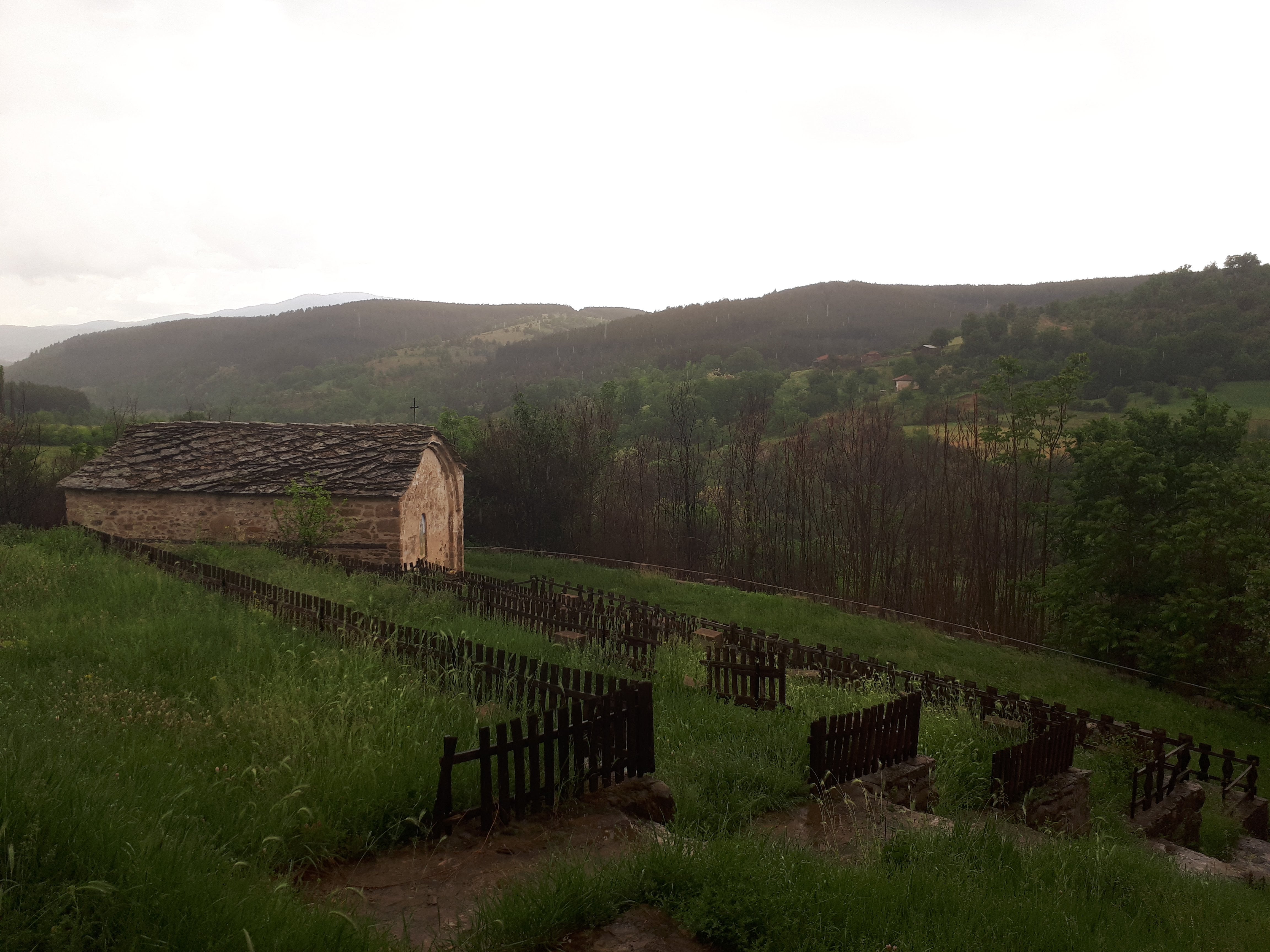 View of the St. Petka Church in the village Selnik